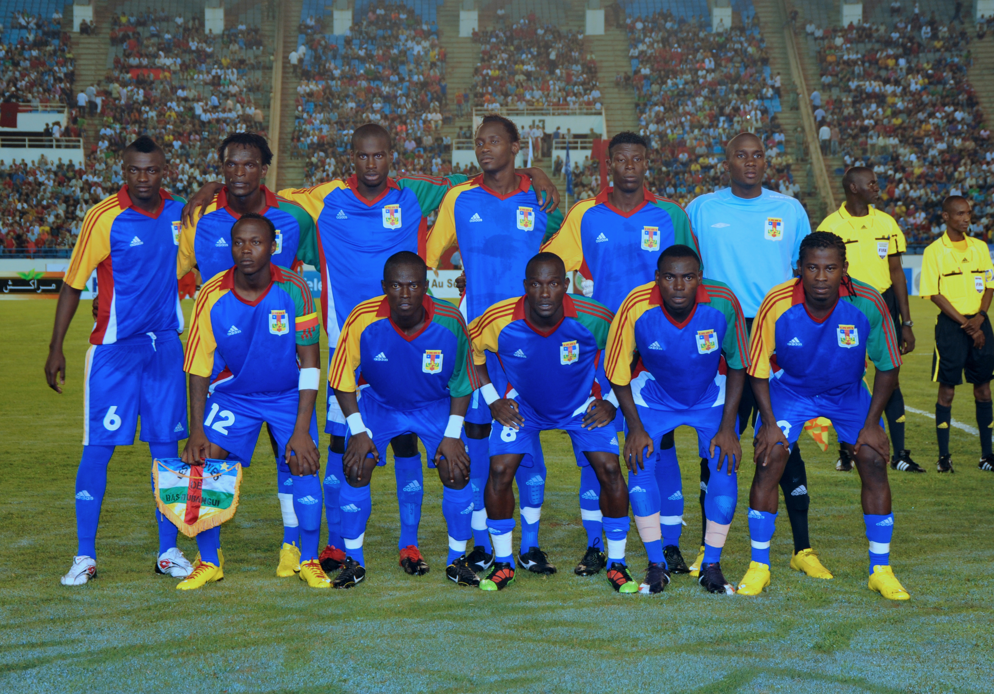 Football national team of Central African Republic before match against Morocco